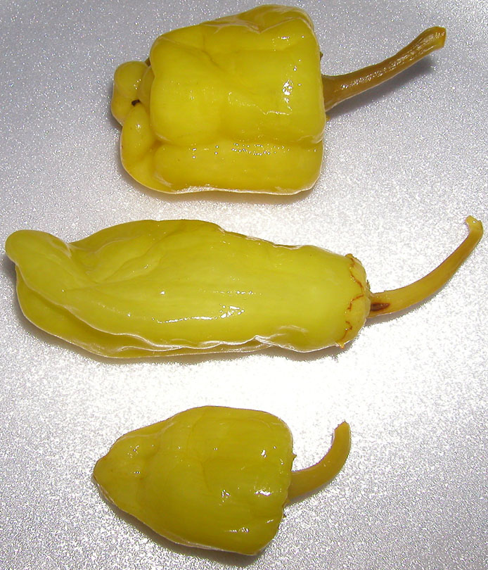 Several pickled friggitelli.